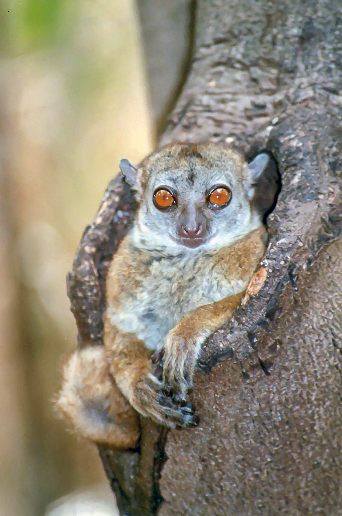 Lepilemur ankaranensis This photo was taken on 1 November 2000 at Ankarana National Park.